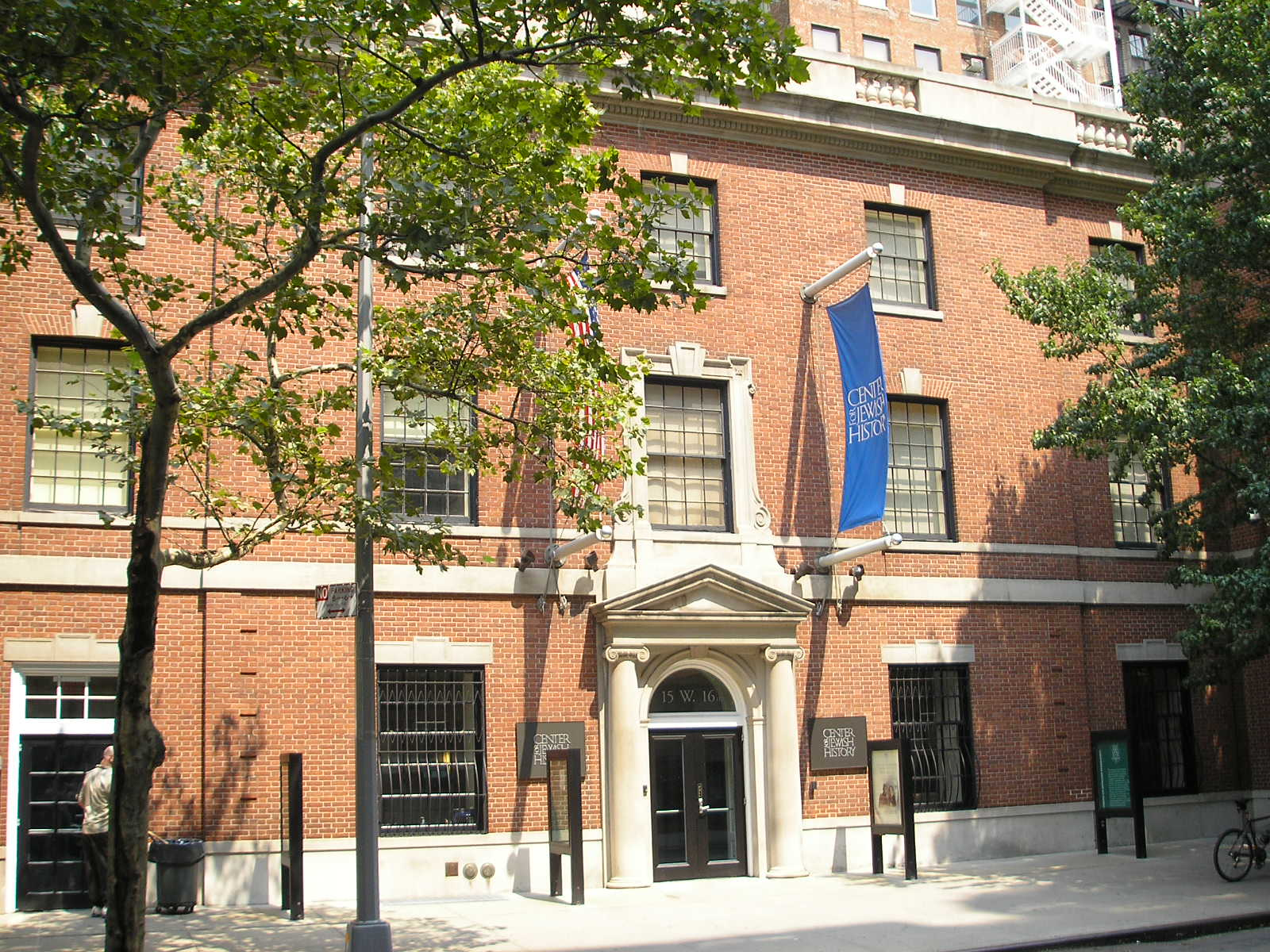 The Center for Jewish History is located on 15 West 16th Street, between 5th and 6th Avenues, in New York, NY 10011. It is home of five preeminent Jewish institutions dedicated to history, culture, and art: The American Jewish Historical Society, The American Sephardi Federation, The Leo Baeck Institute, Yeshiva University Museum, and The YIVO Institute for Jewish Research.